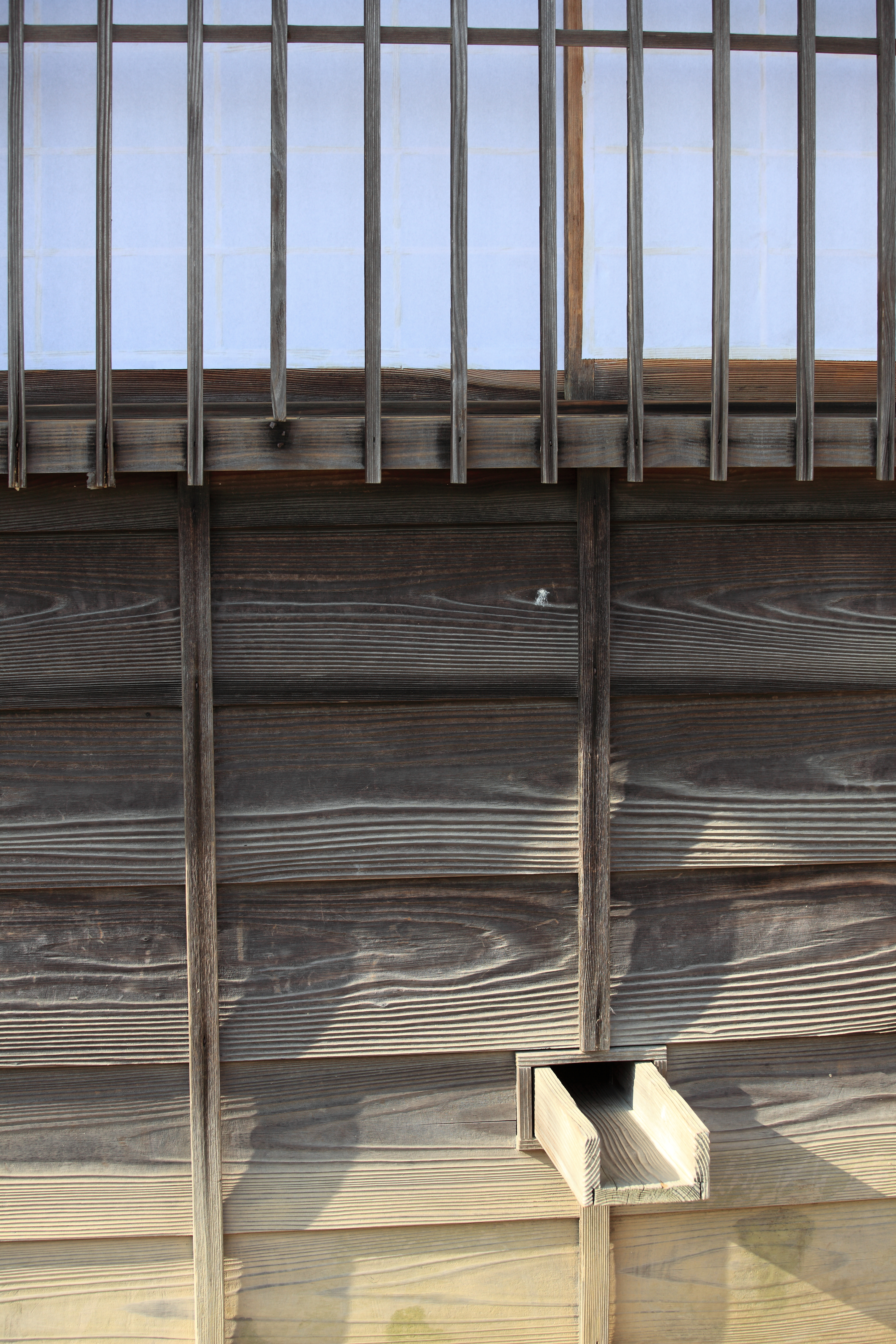 Boso-no-Mura Museum, Inba-gun(county) Chiba-ken(Prefecture), Japan 千葉県印旛郡(ちばけん いんばぐん) 房総のむら(ぼうそうのむら)